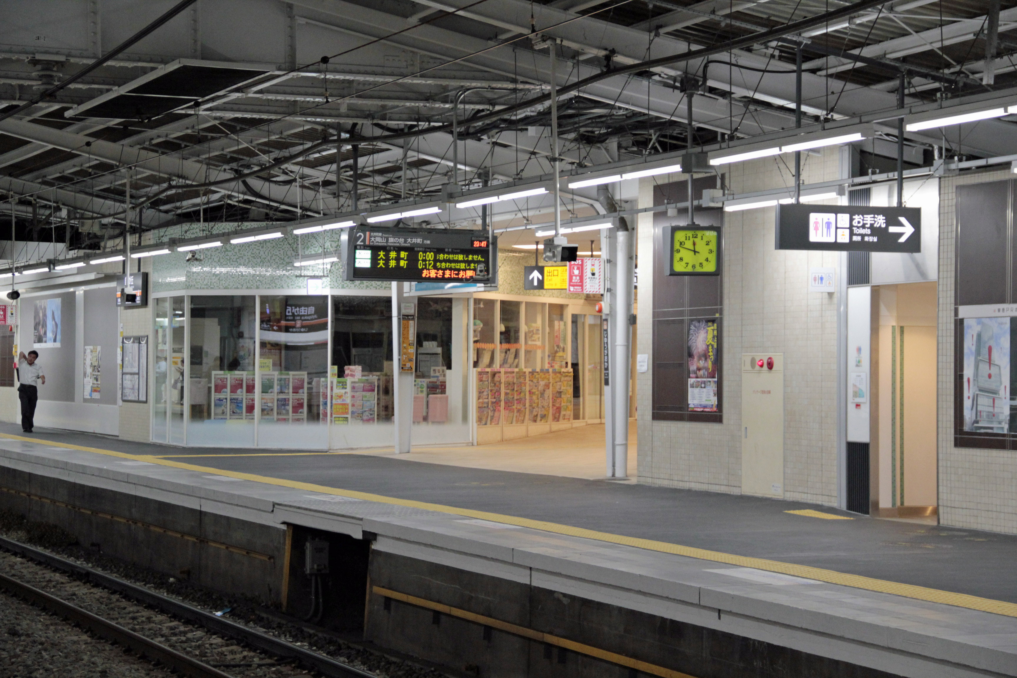 LED and OLED lighting at Jiyugaoka Station.